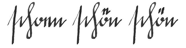 A writing example showing the evolution of umlaut dots from a superscript "e".